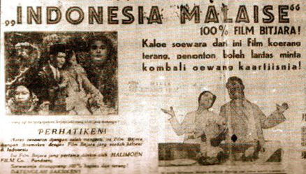 This an advertisement for the 1931 film Indonesia Malaise